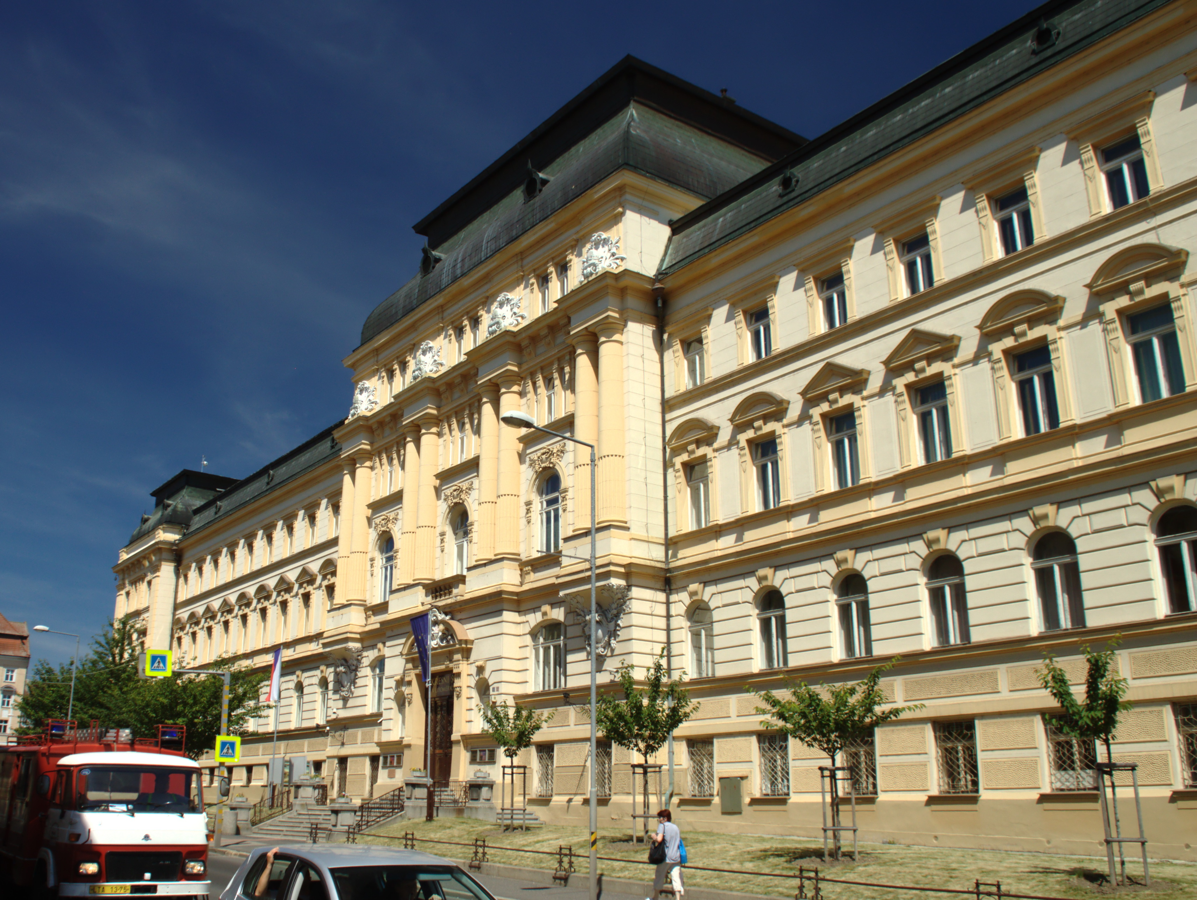 Seat of the district courthouse in Litoměřice, CZ